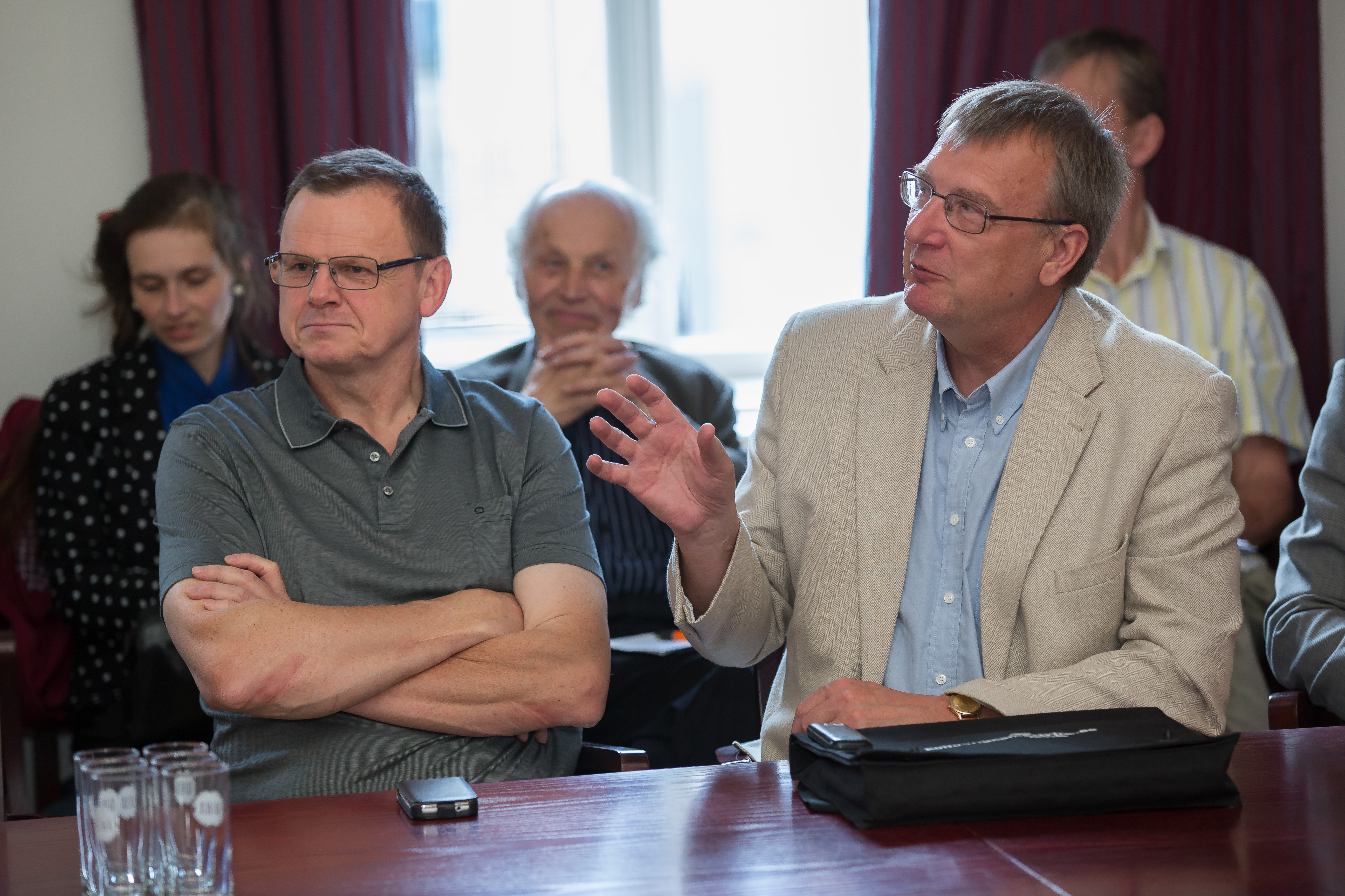 Council of the University of Tartu seminar "Risk management and developing of entrepreneurship inside the university". Vahur Ööpik and Jüri Sepp